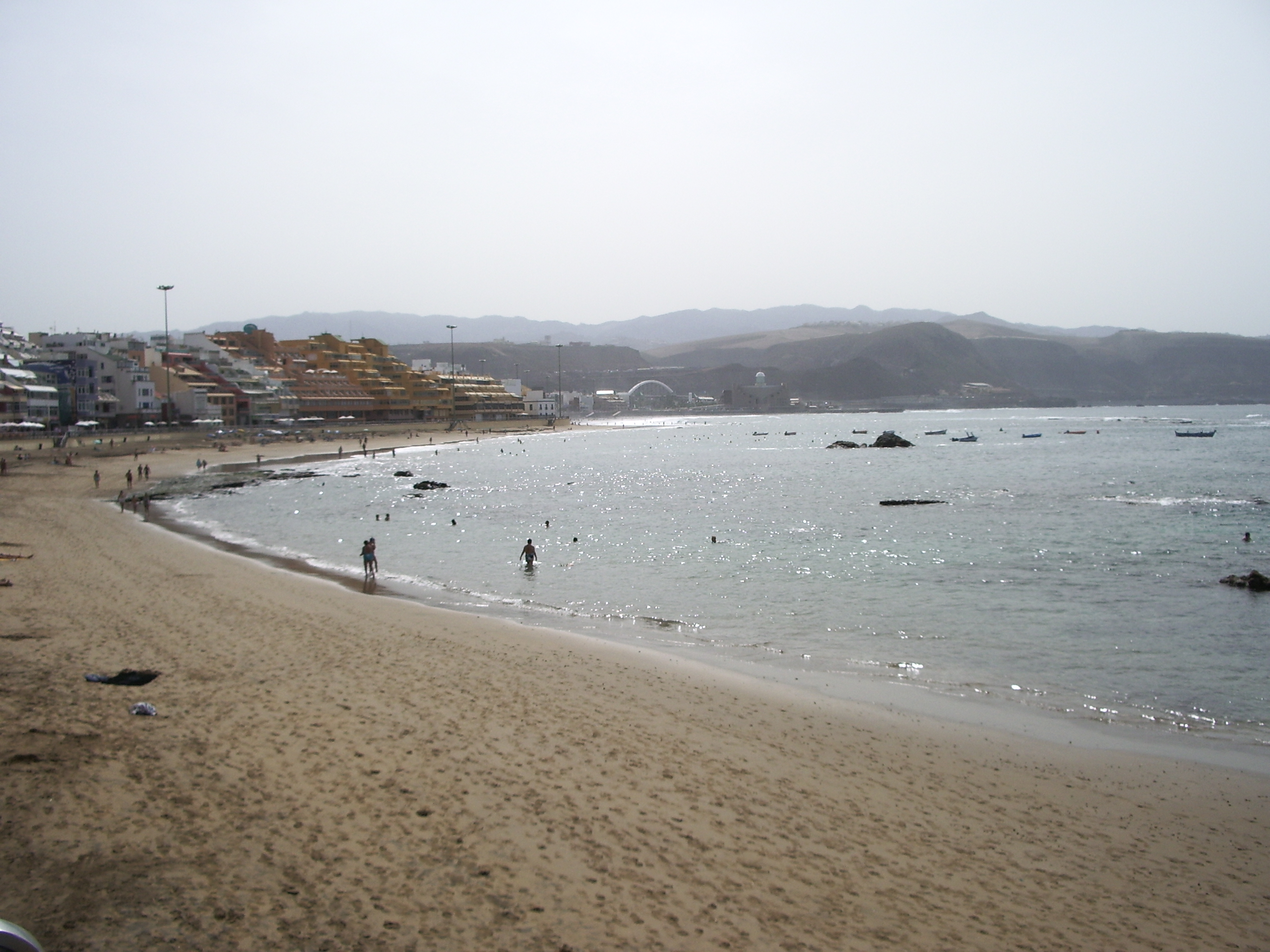 Las Canteras Beach (Peña La Vieja). Las Palmas de Gran Canaria (Gran Canaria) Canary Islands, Spain.